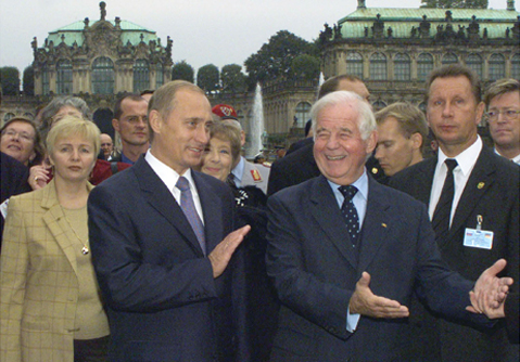 DRESDEN. President Putin and his wife Lyudmila strolling in Dresden with Dr Kurt Biedenkopf, Minister-President of Saxony.